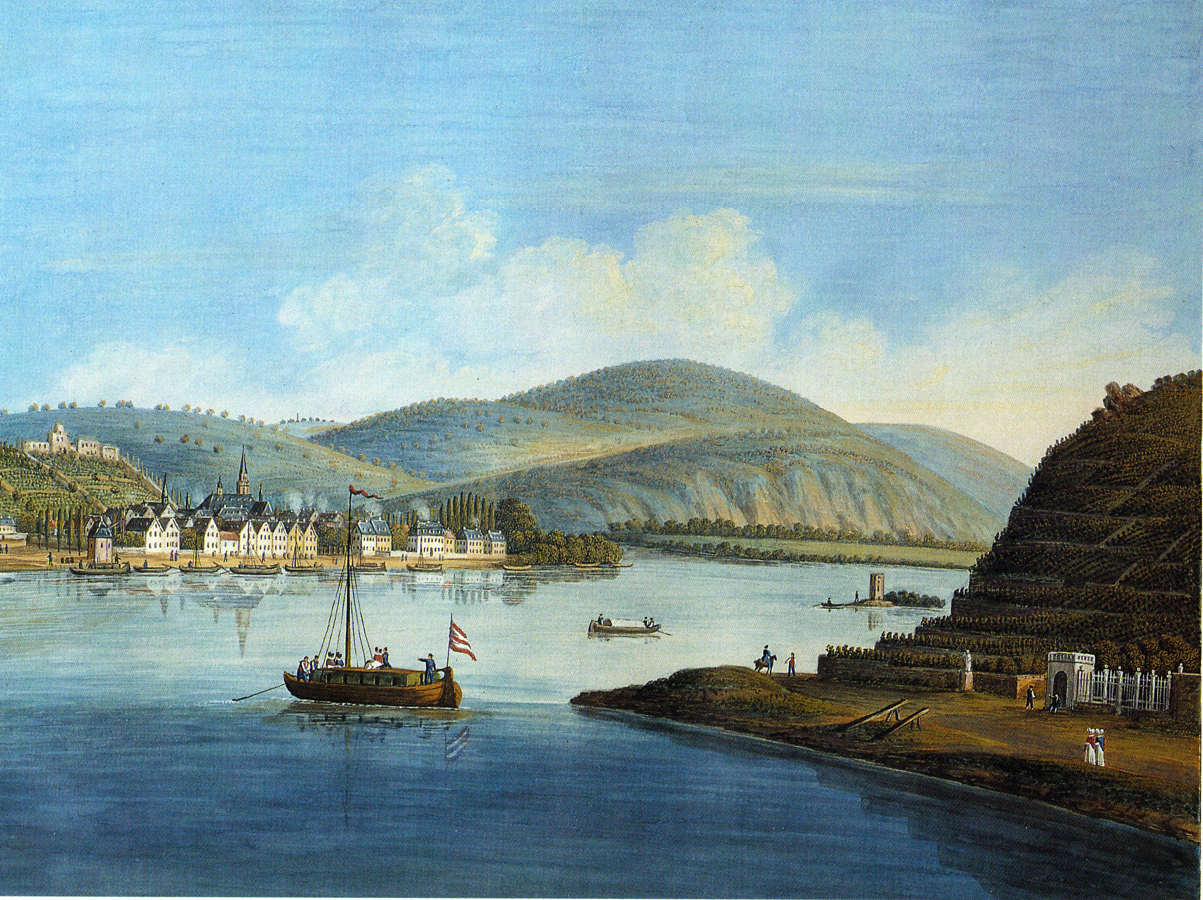 Bingen and the Mouse Tower by anonymous artist, after 1840. gouache, 36.5x49 cm